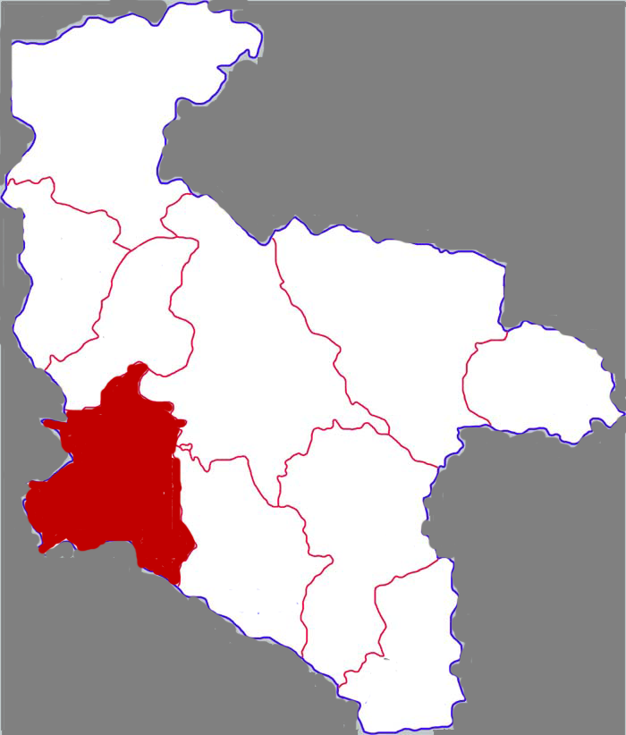 Location of Ziyang county in Ankang city, China